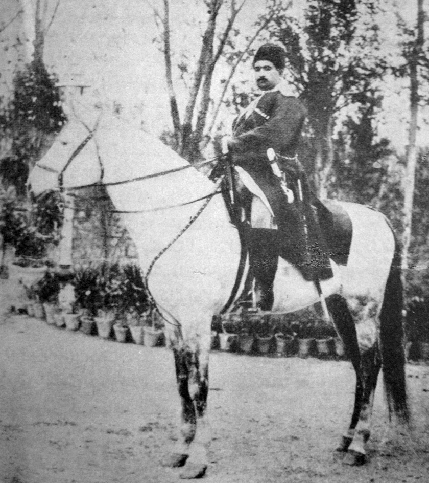 Mohammad Ali Shah